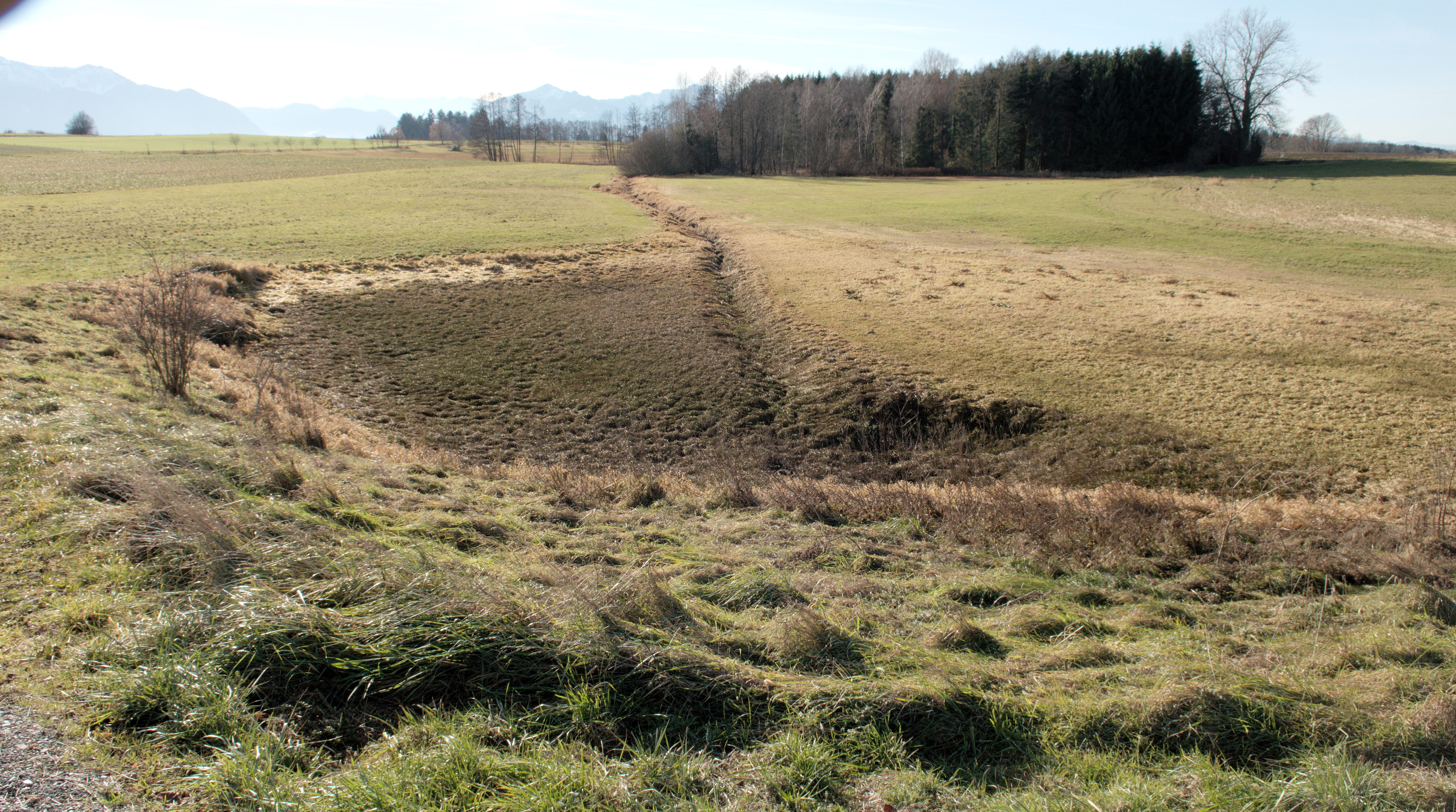 geotope, low moor, Egerer by Chieming, Geotop-Nummer: 189R004